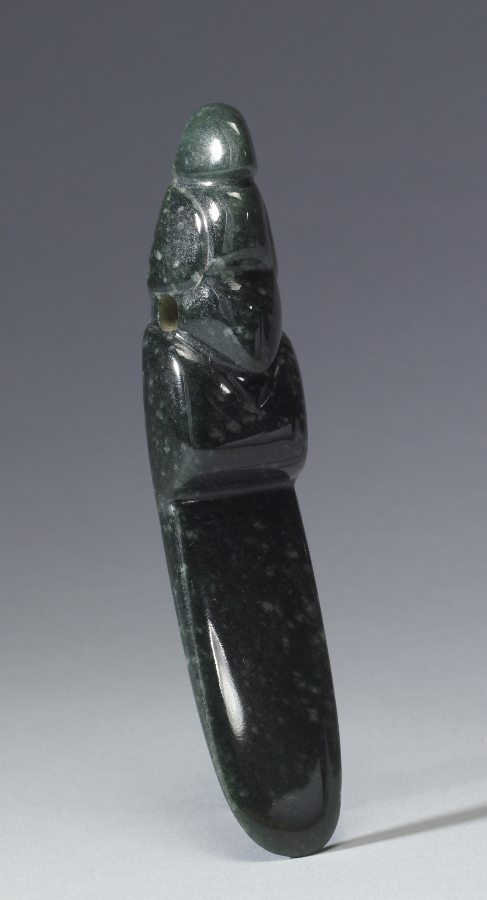 Avian, or bird, pendants form one of the major groups of Costa Rica jades. Though some have been identified as harpy eagles, predators of the tropical forest and powerful symbols to early complex societies throughout the Americas, others are quetzals, elegant, iridescent, and reclusive birds. Throughout much of Mesoamerica's history, quetzal feathers, green, like jade, were prized items.